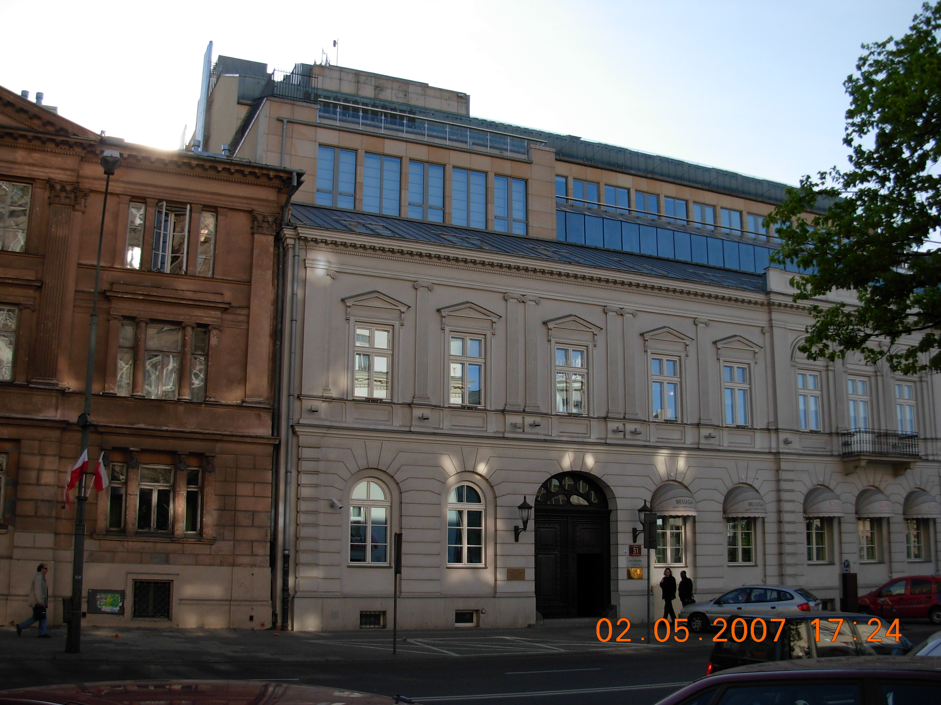 New Zealand Embassy Warsaw